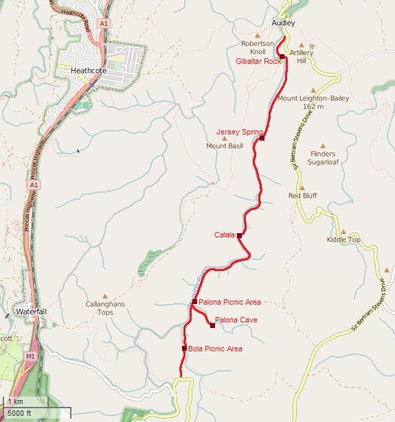 A map of Lady Carrington Drive, highlighted in red, and surrounds, with major points along the track highlighted. This map may be incomplete, and may contain errors. Don't rely solely on it for navigation.